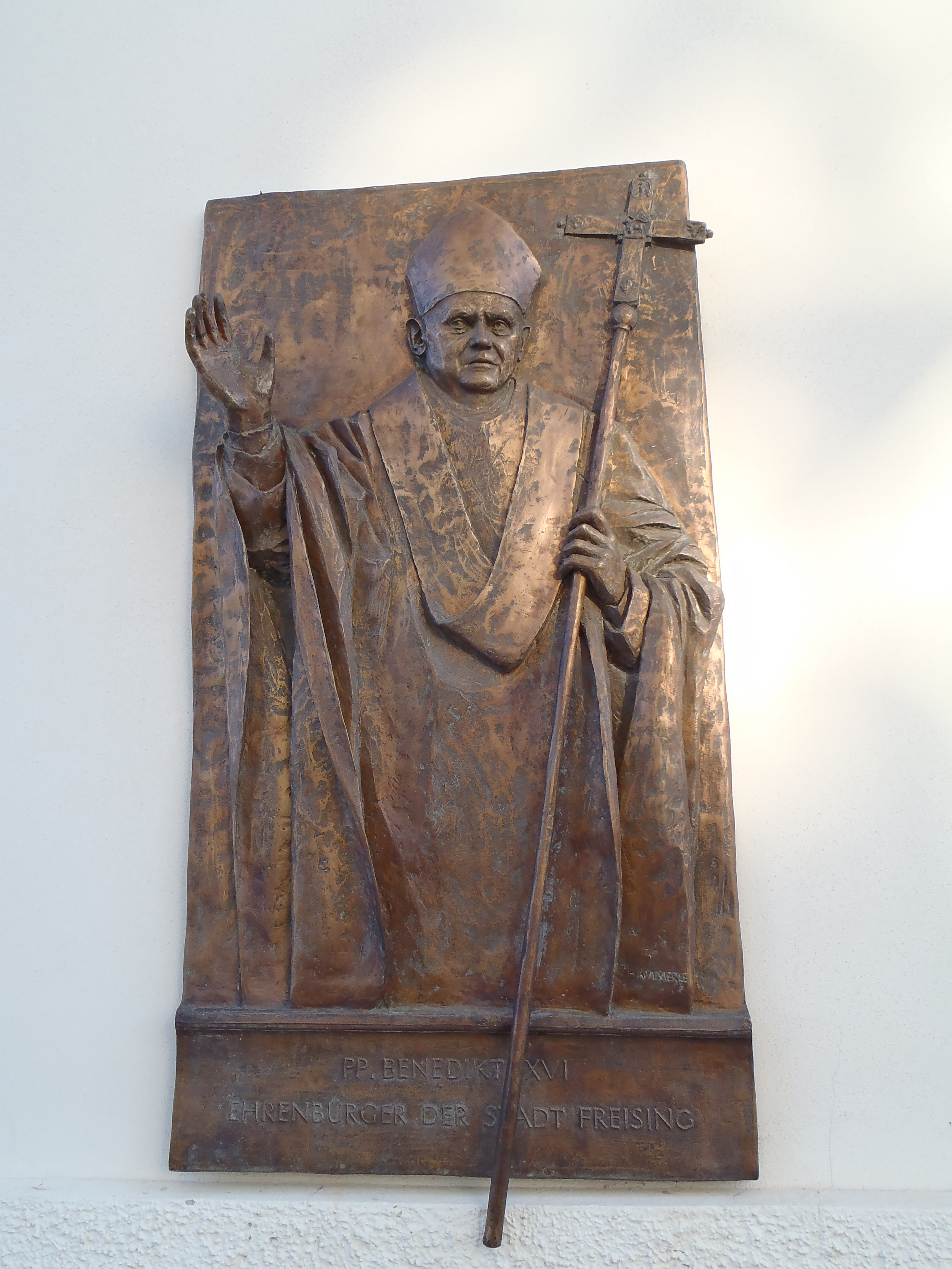 bronzrelif of pope Benedikt XVI